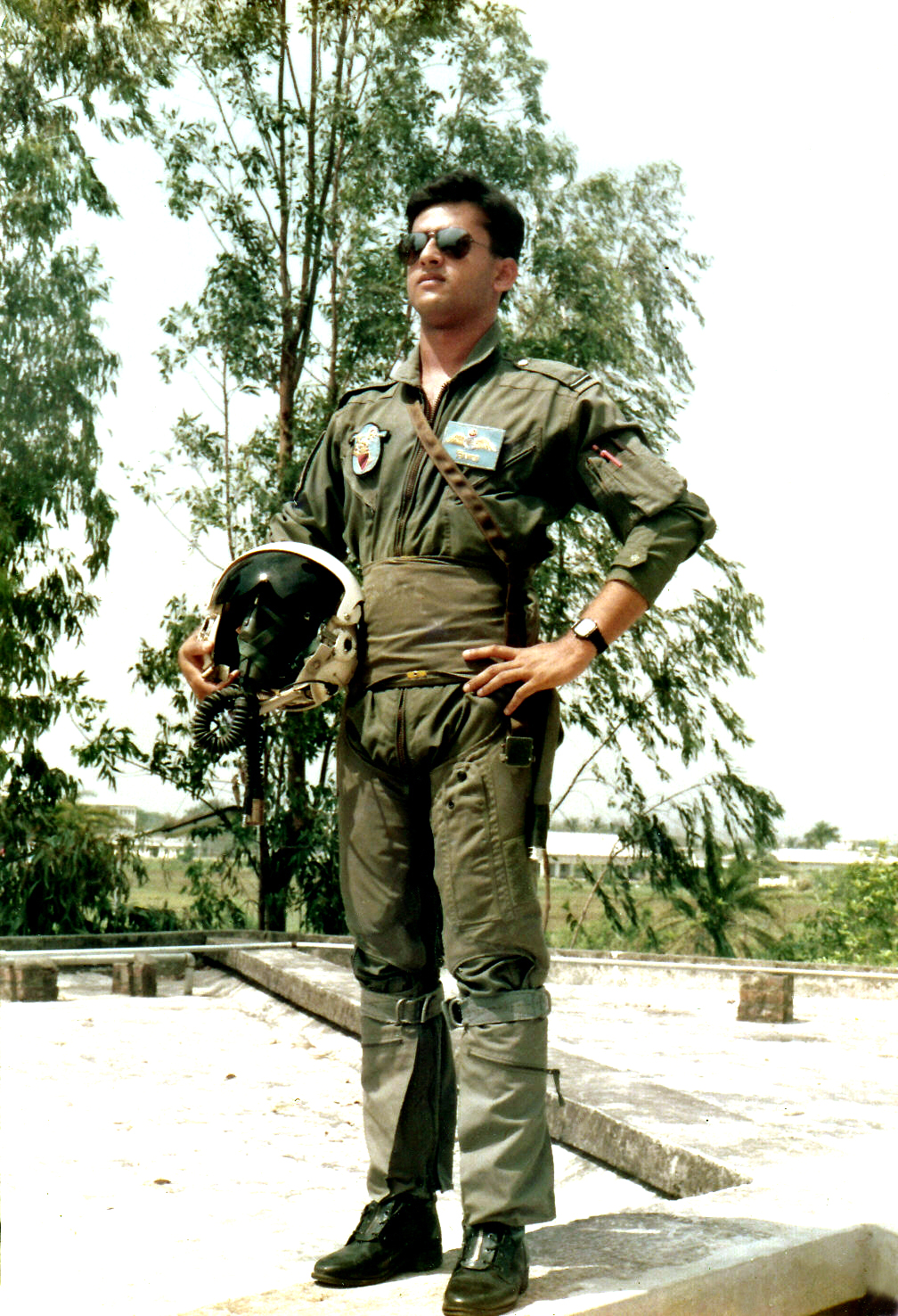 Riaz BAF Academy Jessore, Bangladesh in 1991.